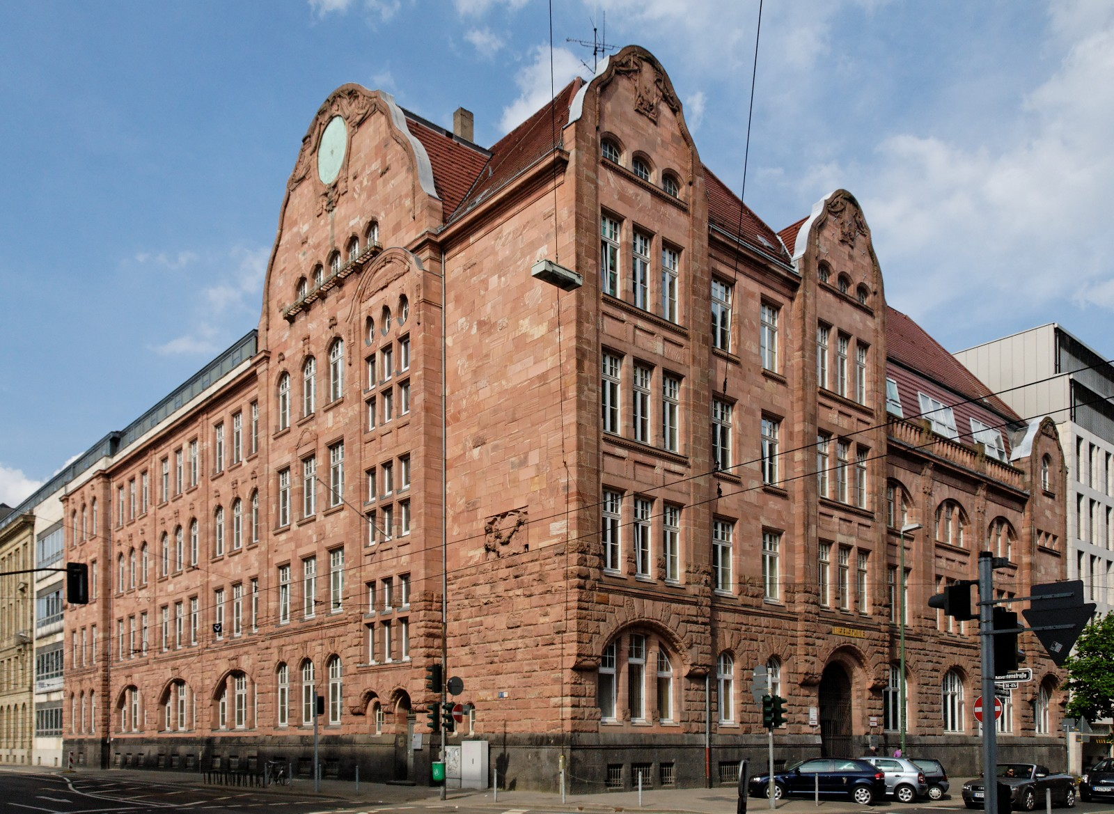 Luisen Gymnasium in Düsseldorf-Stadtmitte, Germany